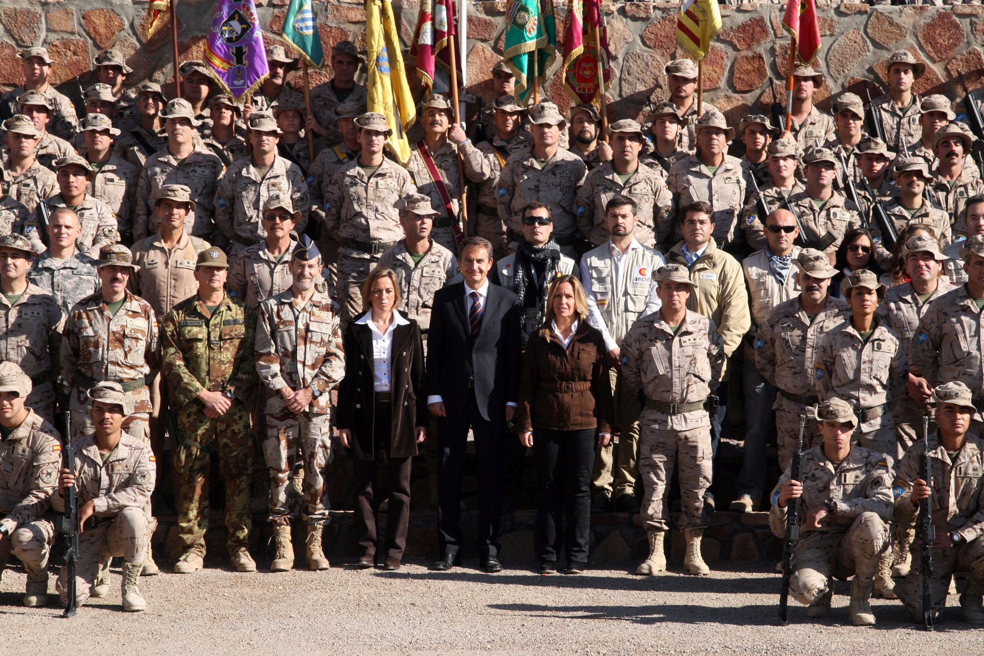 Mr. Zapatero with the Spanish Provintial Reconstruction Team in Qal eh ye now 06th Nov 2010